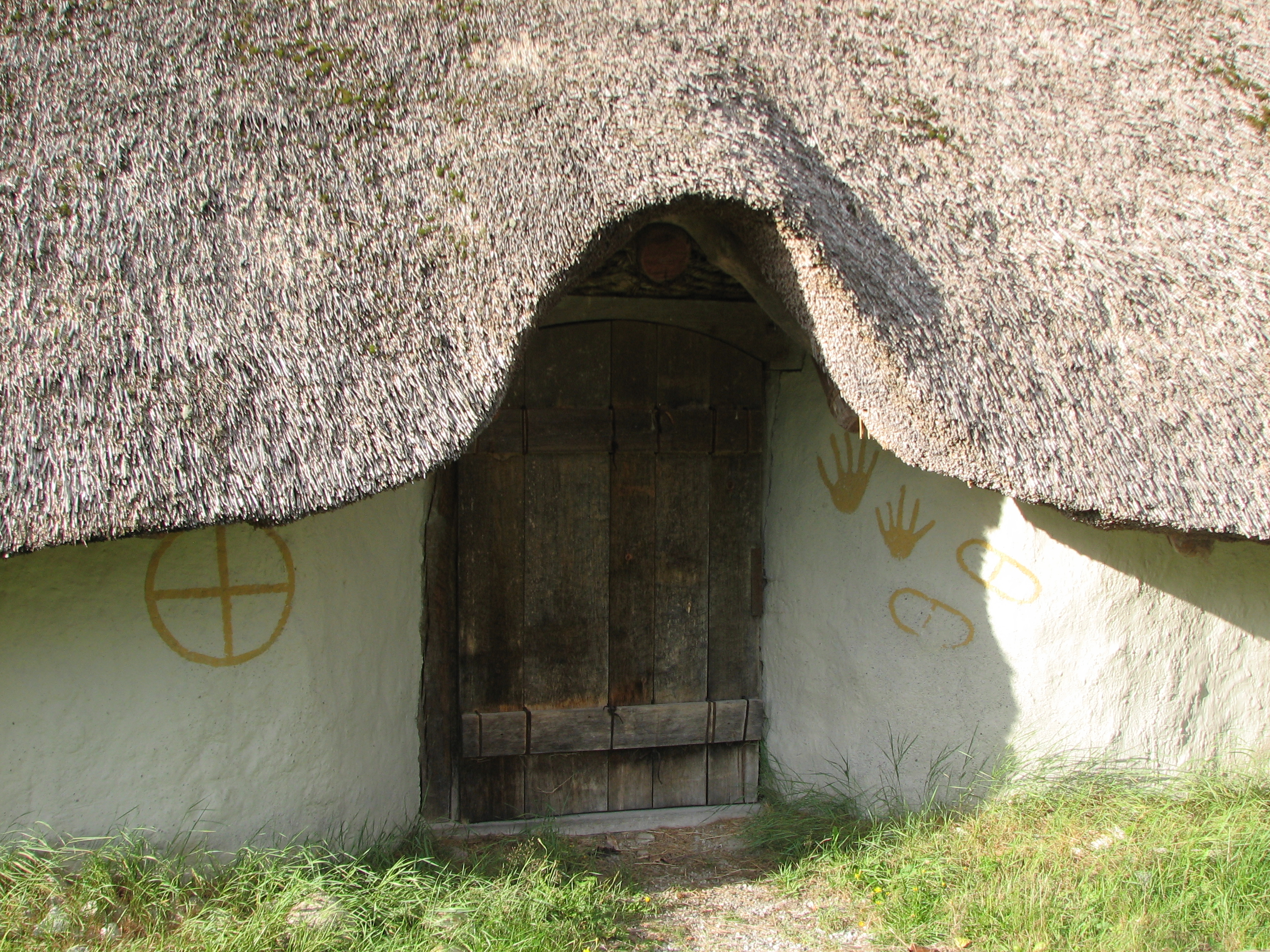 Landa (archaeological outdoor museum) - Viking house entrance